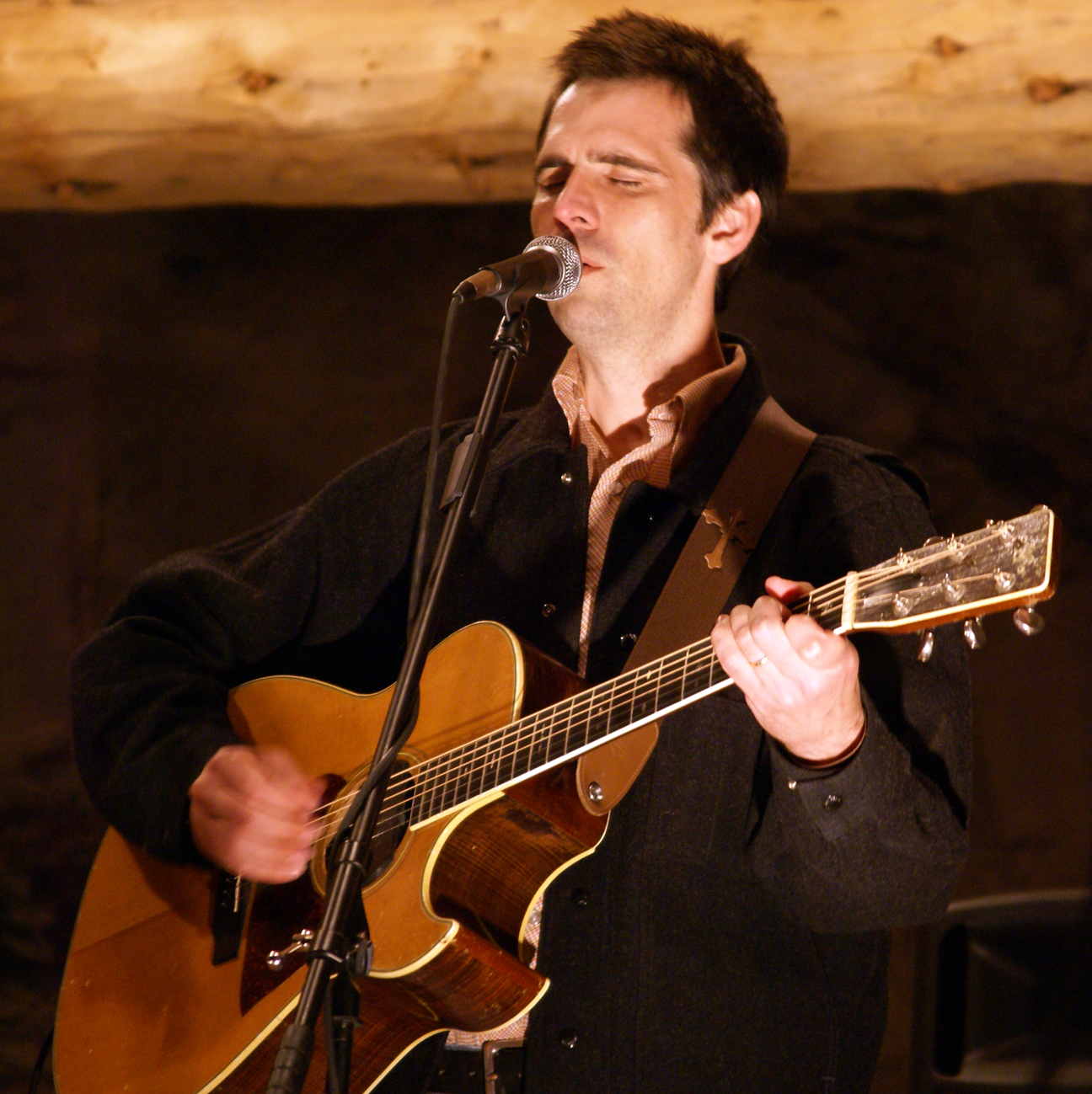 Ryan Murphey performing with his father, Michael Martin Murphey, at the Sportsman's Texaco in Lake City, Colorado on July 2, 2009